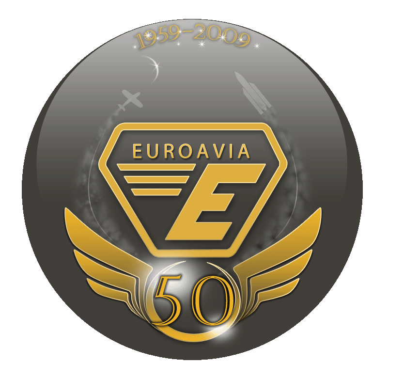 The 50th-Anniversary-Logo of The European Association of Aerospace Students